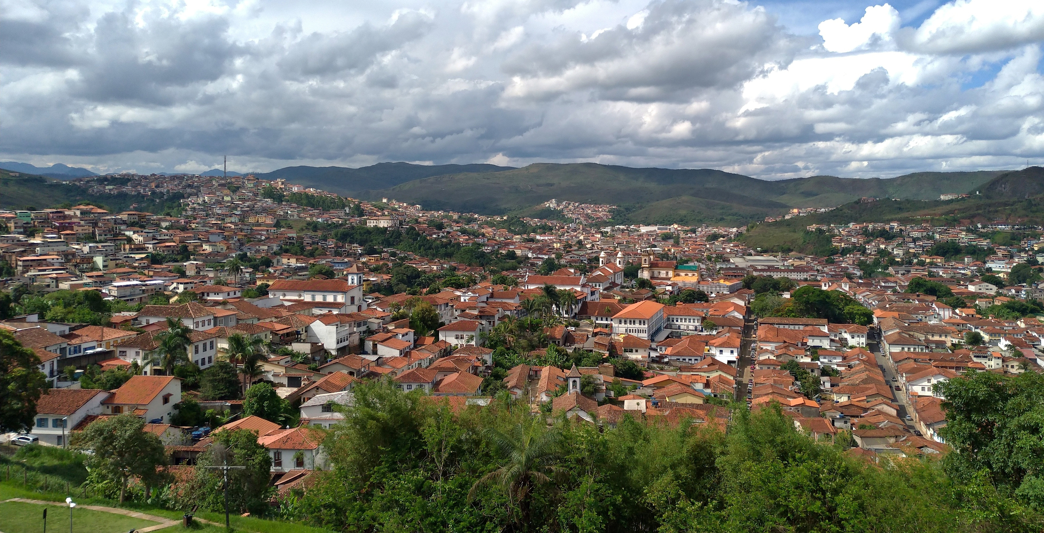 Mariana, Minas Gerais, Brazil, seen from of the tower of the Saint Peter of the Clergymen Church.